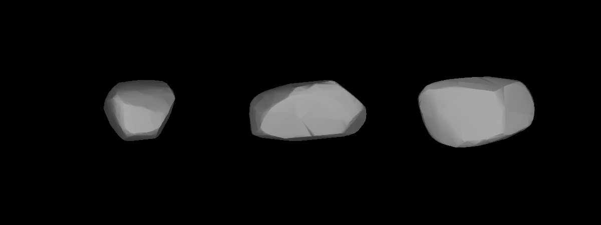 A three-dimensional model of 486 Cremona that was computed using light curve inversion techniques.